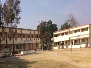 ZPH School